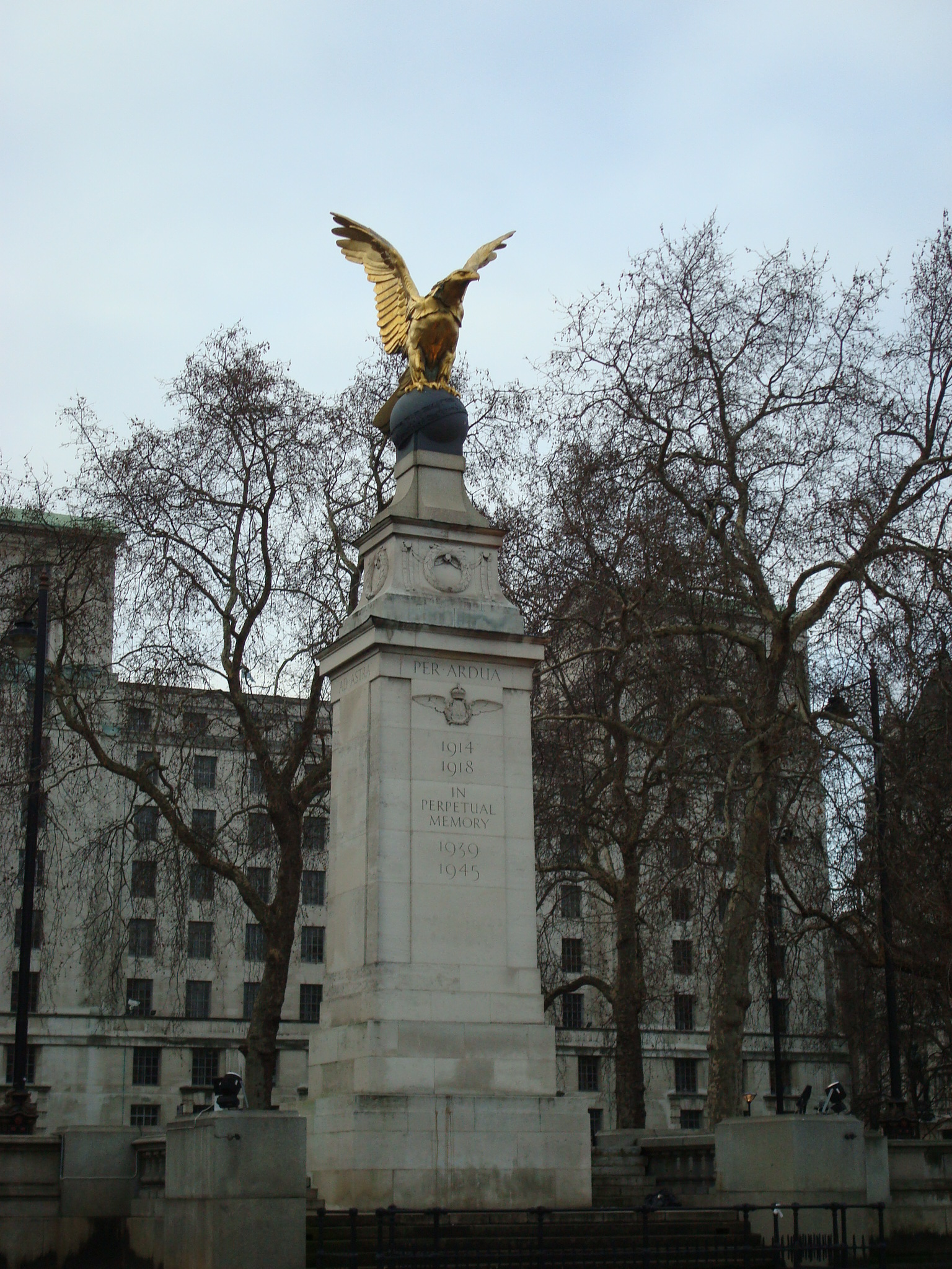 The RAF Memorial on the Victoria Embankment, London